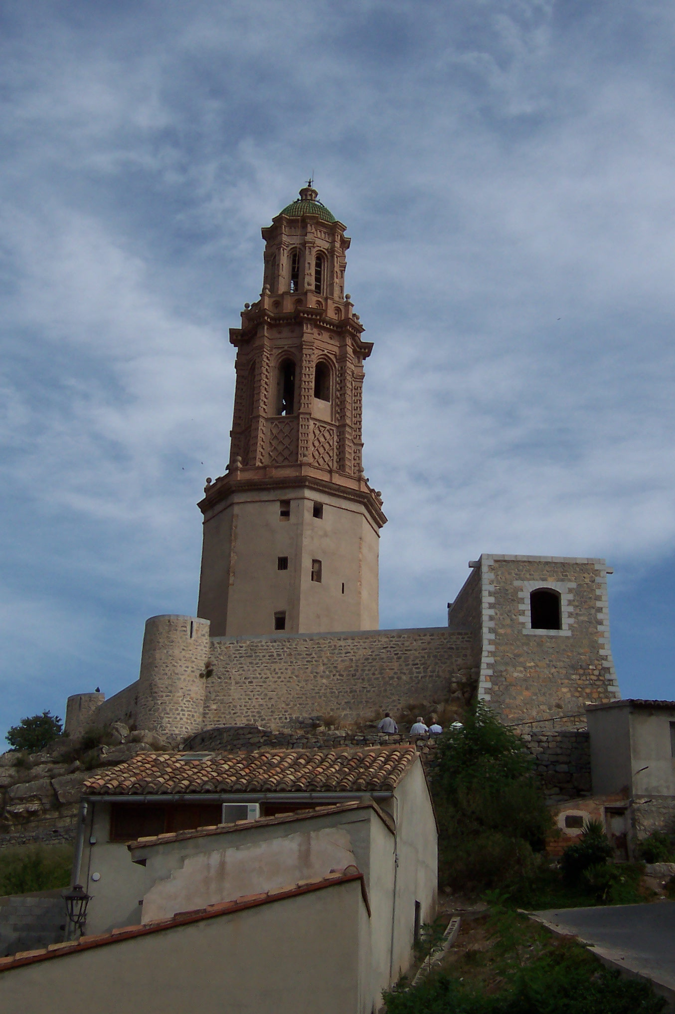 Torre mudejar de Jerica (Mudéjar Tower of Jérica). Author: José F. Català Senent